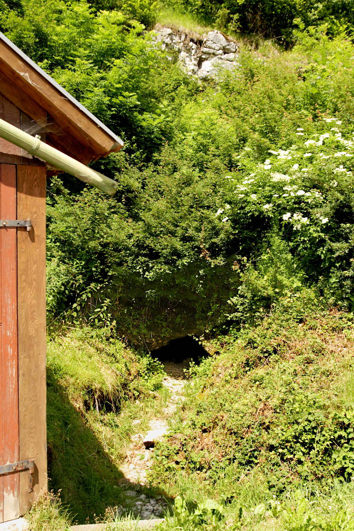 Unimpressive cave entrance "Hausener Bröller" in Hausen an der Lauchert, (village at the Lauchert), Swabian Alb. However, geologically and speleologically it is the portal of one of the most important caves on the Swabian Alb. "Bröller" is a swabian word for loud sound from within, when after a heavy rain (or snow melting) period the cave turns all of a sudden into a water cave. It is the only cave in the catchment area of the Lauchert whose altitude is close to the recent rockbed level of the river. Serious speleological studies began as late as 1991. By 1995 a length of 523m with 3 narrow sumps were mapped. The third sump of the at least 12000 years old cave could not yet be penetrated.